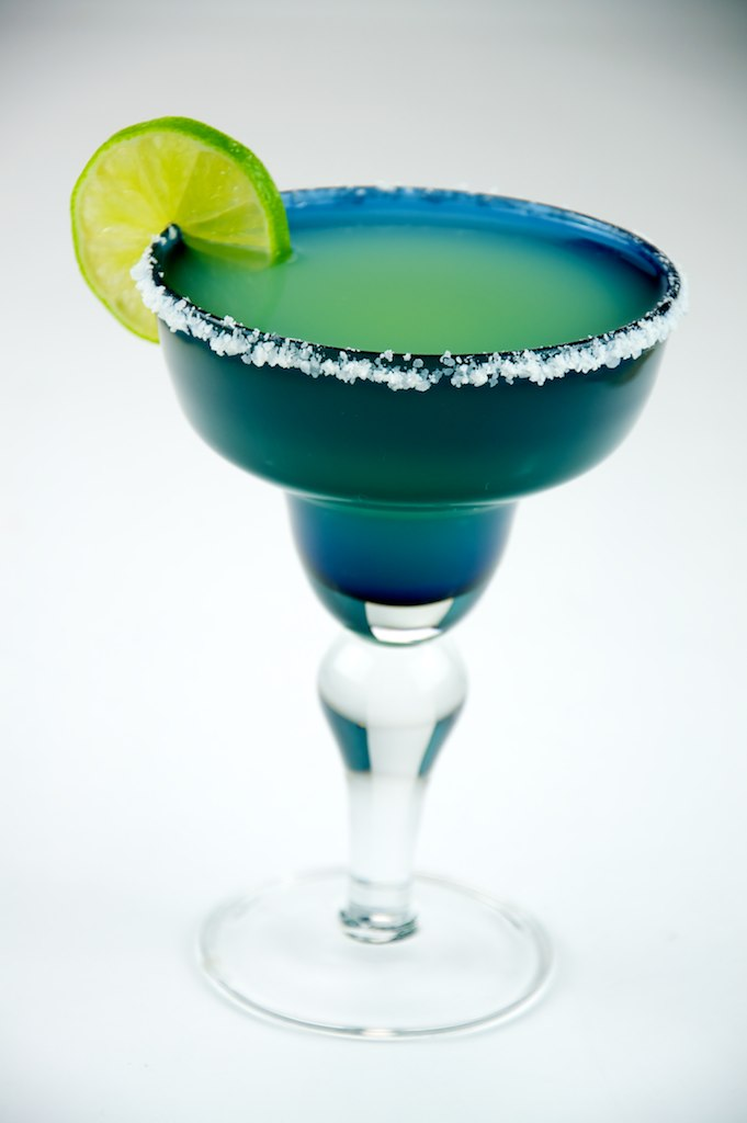 Margarita with lime in a margarita glass.